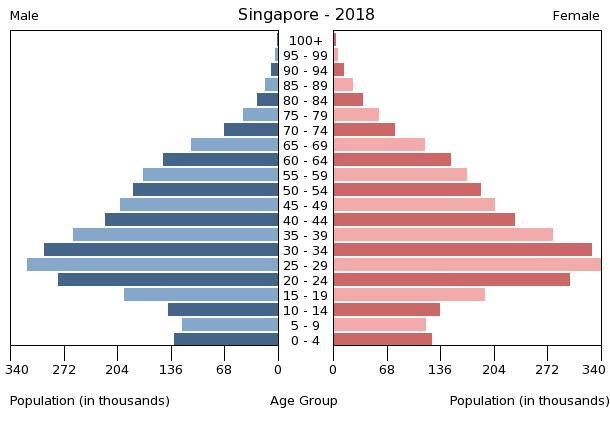 The population pyramid of Singapore illustrates the age and sex structure of population and may provide insights about political and social stability, as well as economic development. The population is distributed along the horizontal axis, with males shown on the left and females on the right. The male and female populations are broken down into 5-year age groups represented as horizontal bars along the vertical axis, with the youngest age groups at the bottom and the oldest at the top. The shape of the population pyramid gradually evolves over time based on fertility, mortality, and international migration trends.